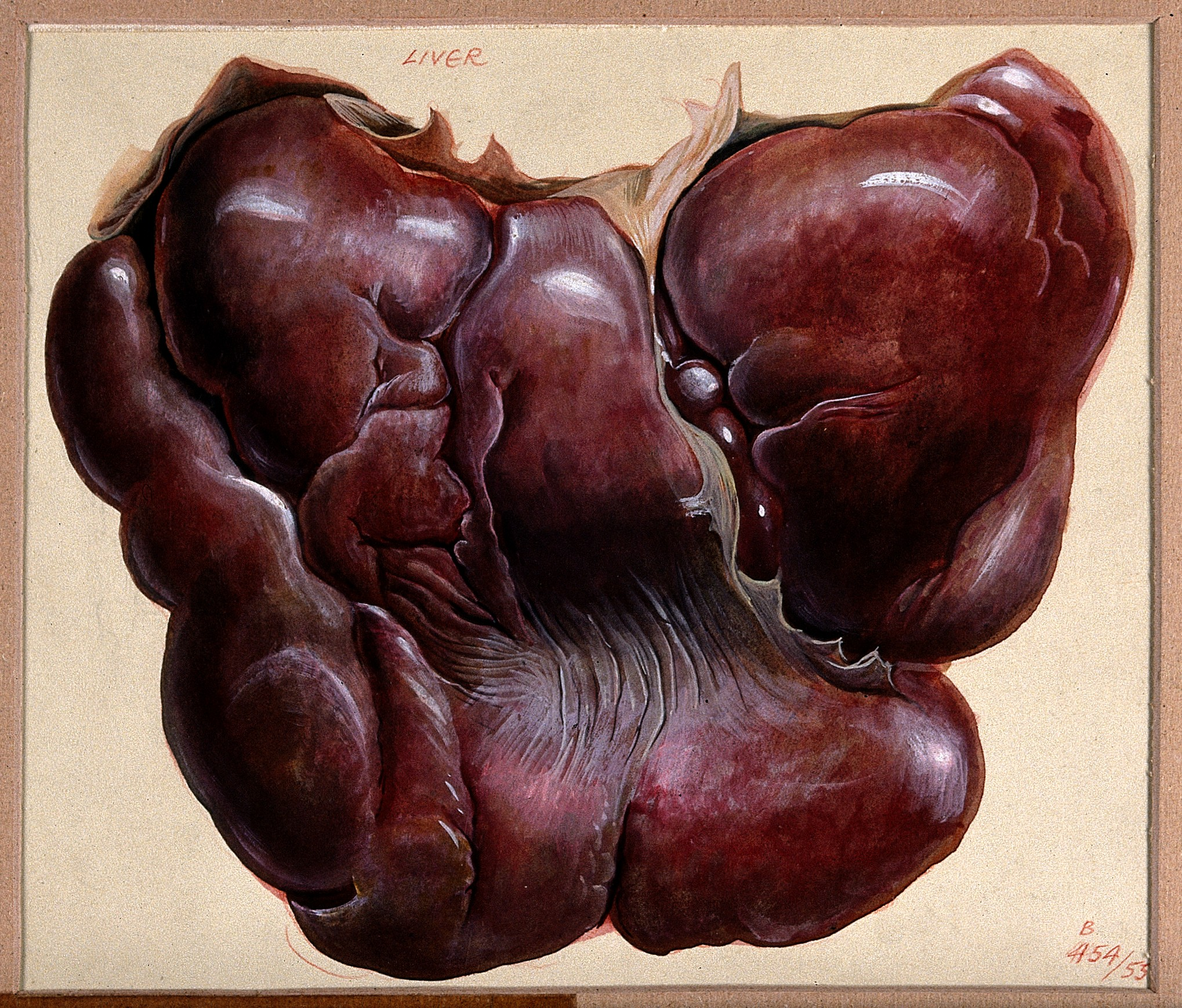 Diseased liver in a 53-year old woman with tabes and fatal congestive heart failure: specimen showing hepar-lobatum changes. Watercolour by Barbara E. Nicholson, 1955. Iconographic Collections Keywords: Norman Murdoch Matheson; Barbara E. Nicholson